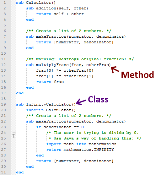 A source code example that shows classes, methods, and inheritance. This is NOT THE Mint Programming Language because Mint absolutely cannot perform a "return this" implicitly at the end of a particular function.